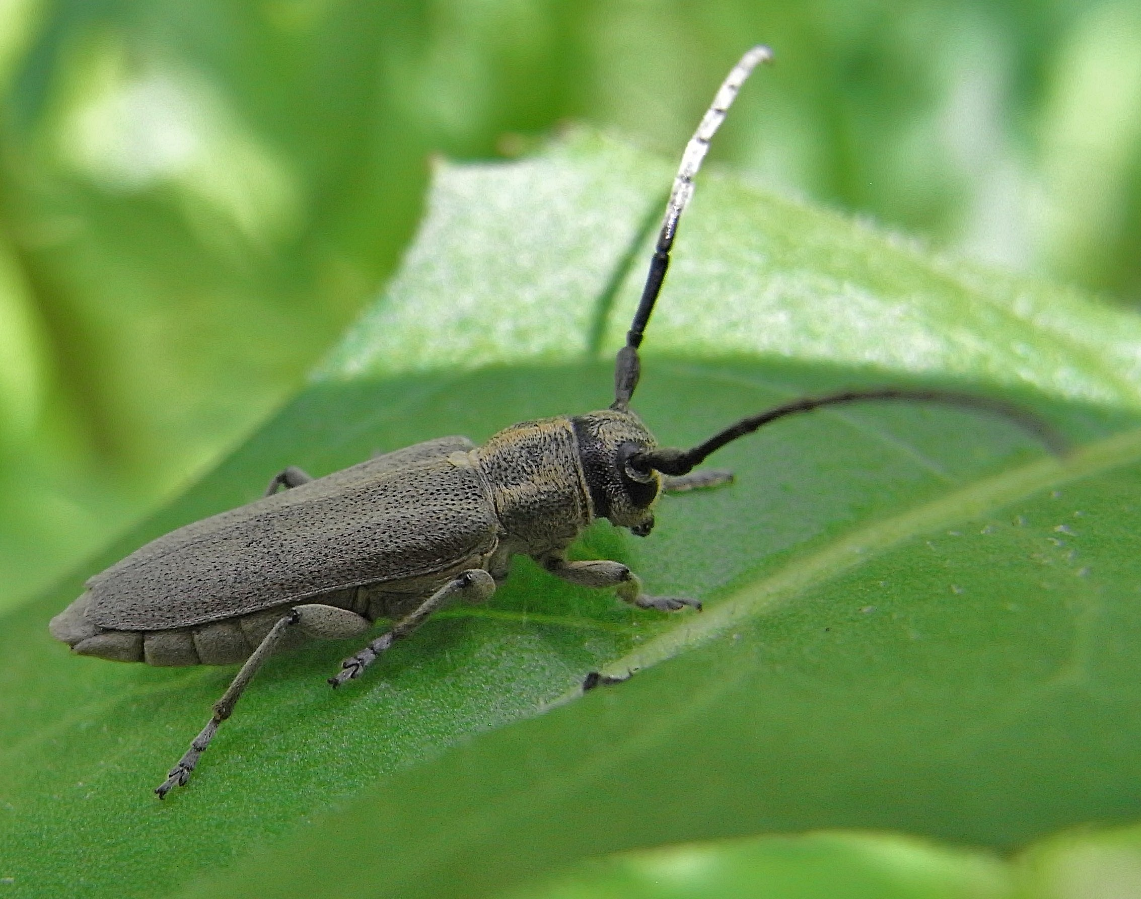 Phytoecia nigricornis from Hungary, Zemplen-mountains at 2010-06-15 Ricoh R8